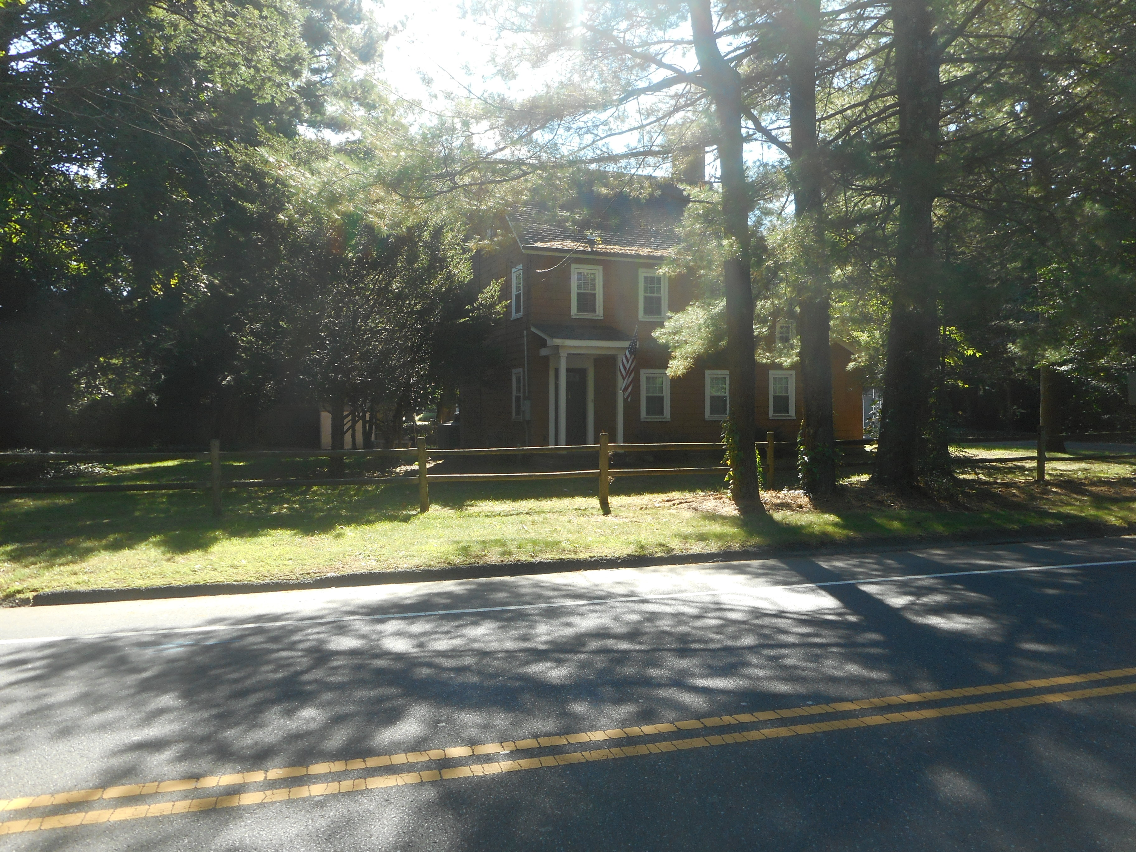 First shot of the NRHP-listed John Everit House on 130 Old Country Road in Melville, New York, near West Hills, New York. Further details to come later.